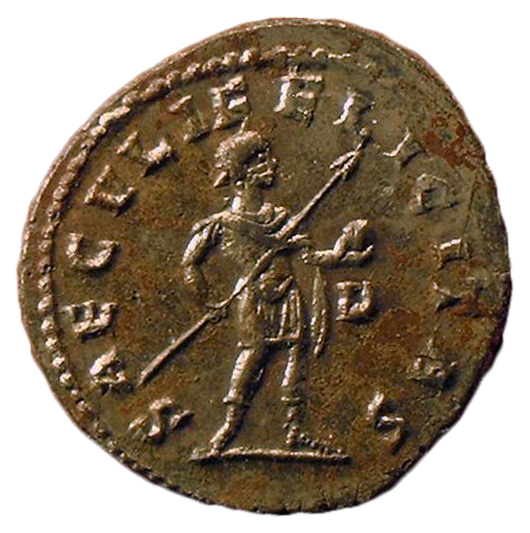 Antoninianus of Carinus (son of Carus and brother of Numerianus) holding pilum and globe